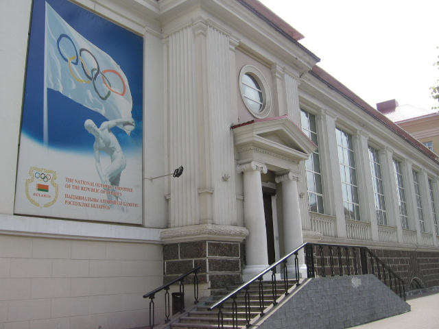 h.2